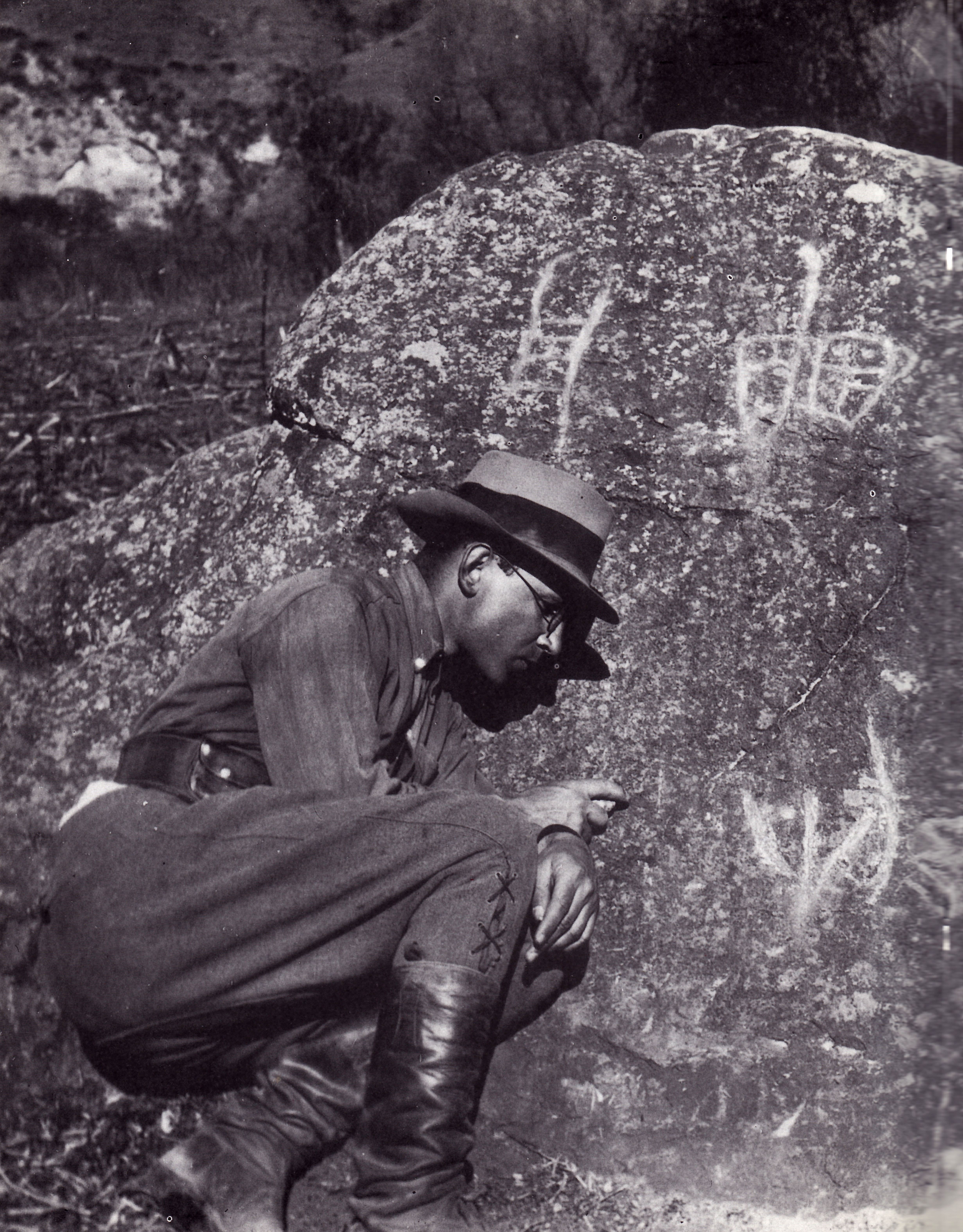 Alfred Métraux à Candelaria (Argentine) en juillet 1932